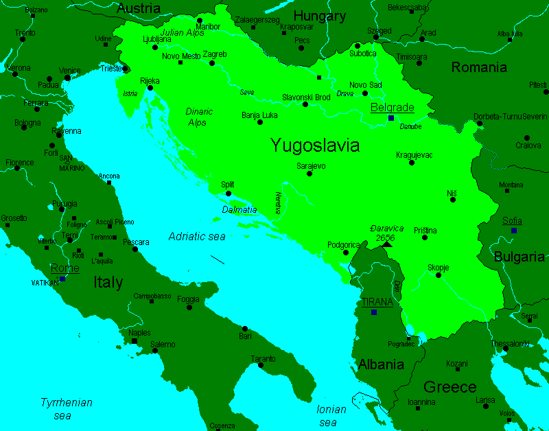 A large detailed colour map of the former Republic of Yugoslavia (In English). Attention: This image has no copyright